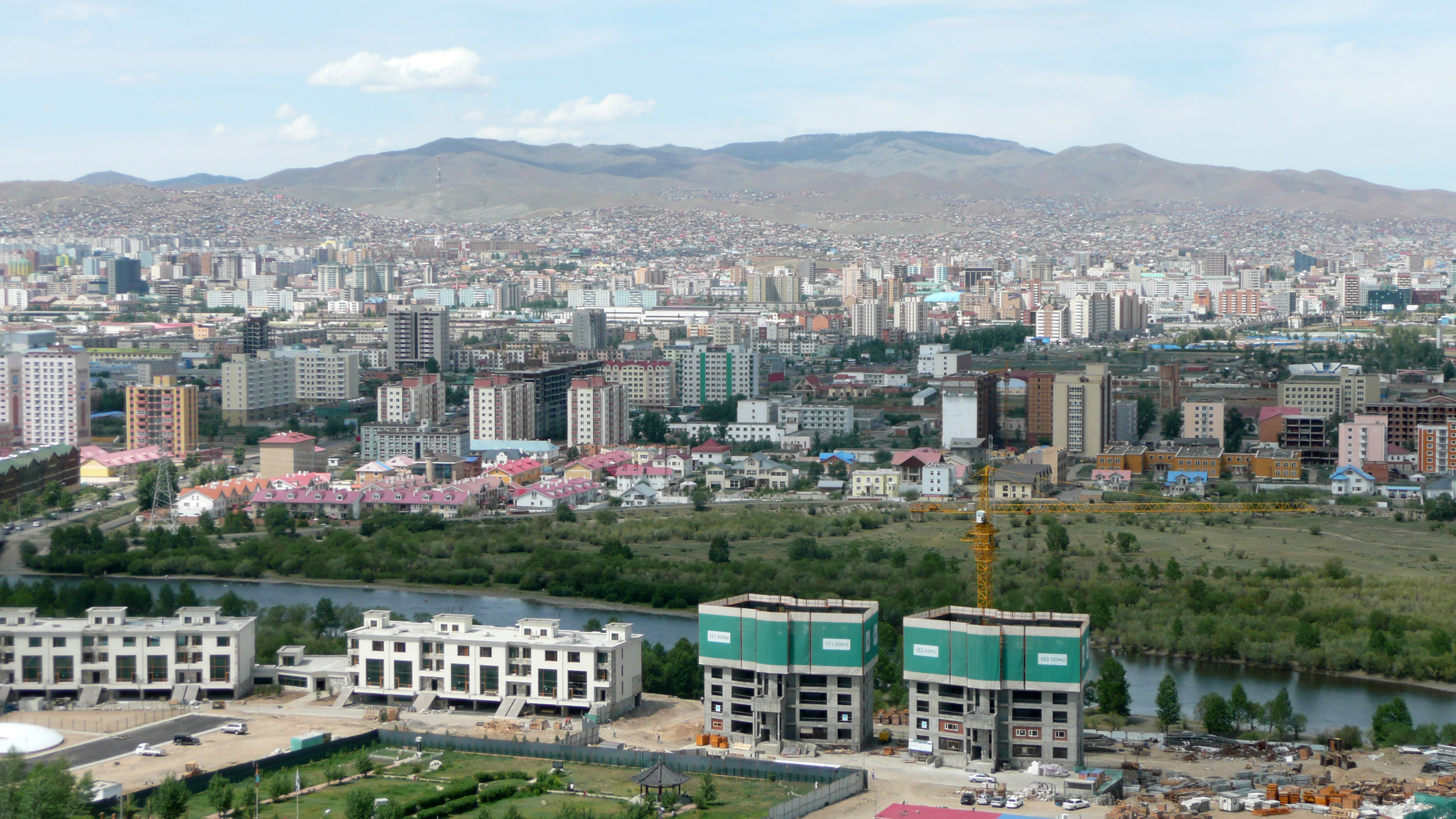 Panorama of Ulan Bator